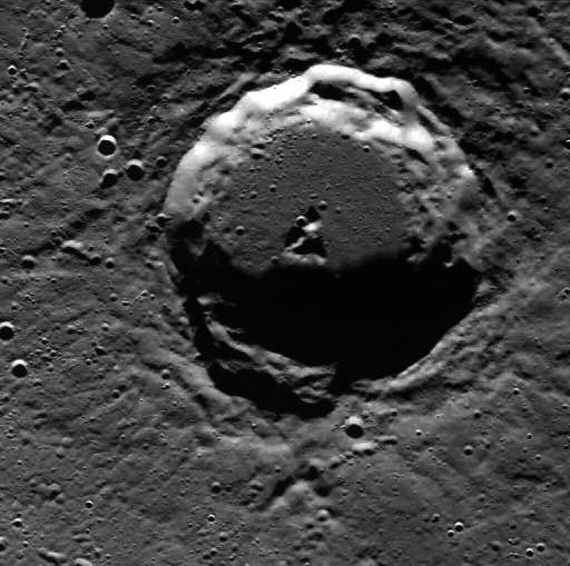 Despréz crater on Mercury. Approximate north is in upper right. Emission Angle: 0.7 Incidence Angle: 81.6 Latitude: 81.0 Longitude: 257.6 Phase Angle: 82.3